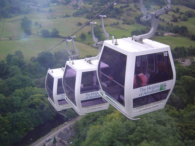 Cable Cars(Heights of Abraham Matlock)